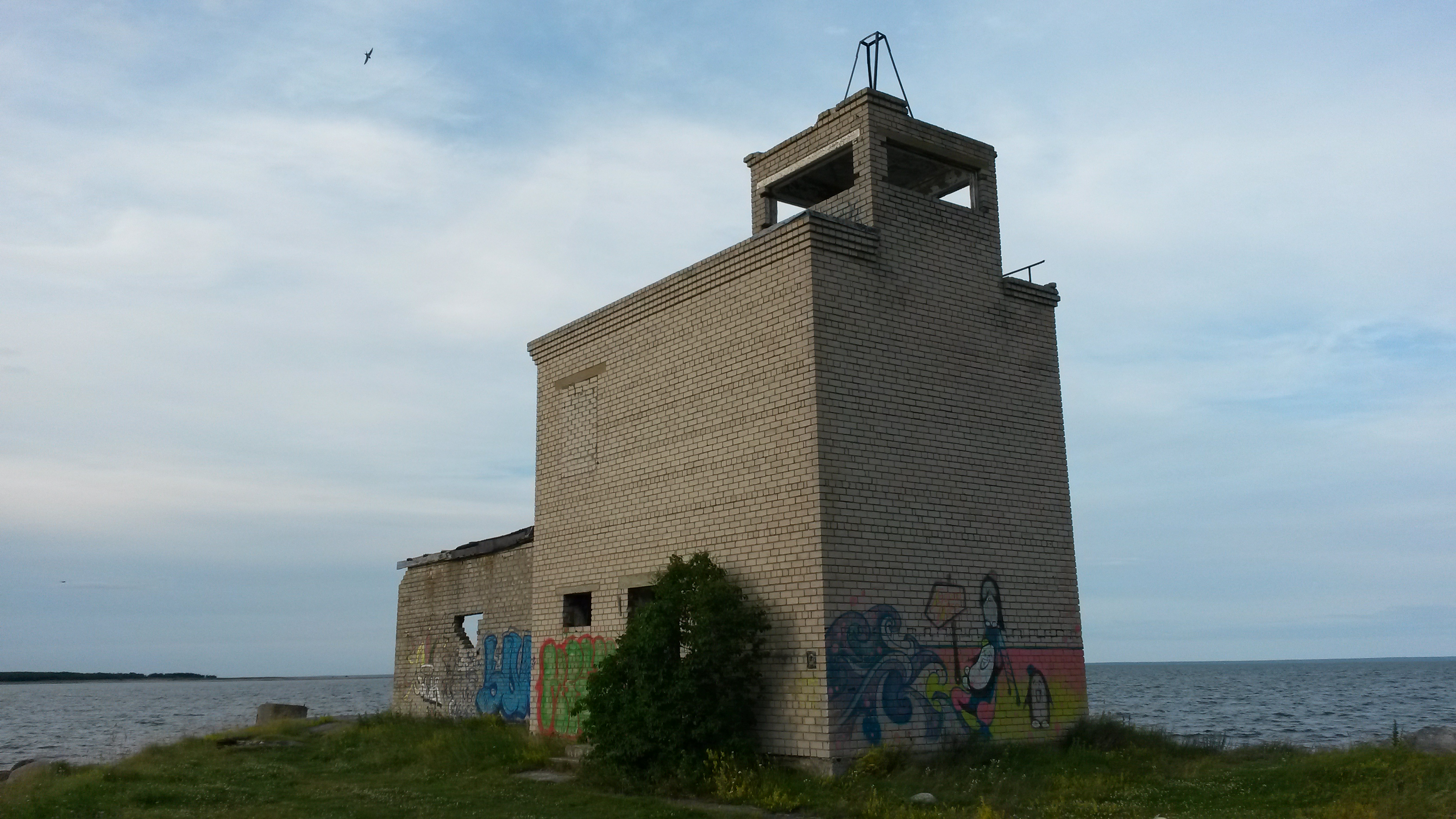 Former Soviet borderguard technical supervision post at Kaberneeme, Harju county